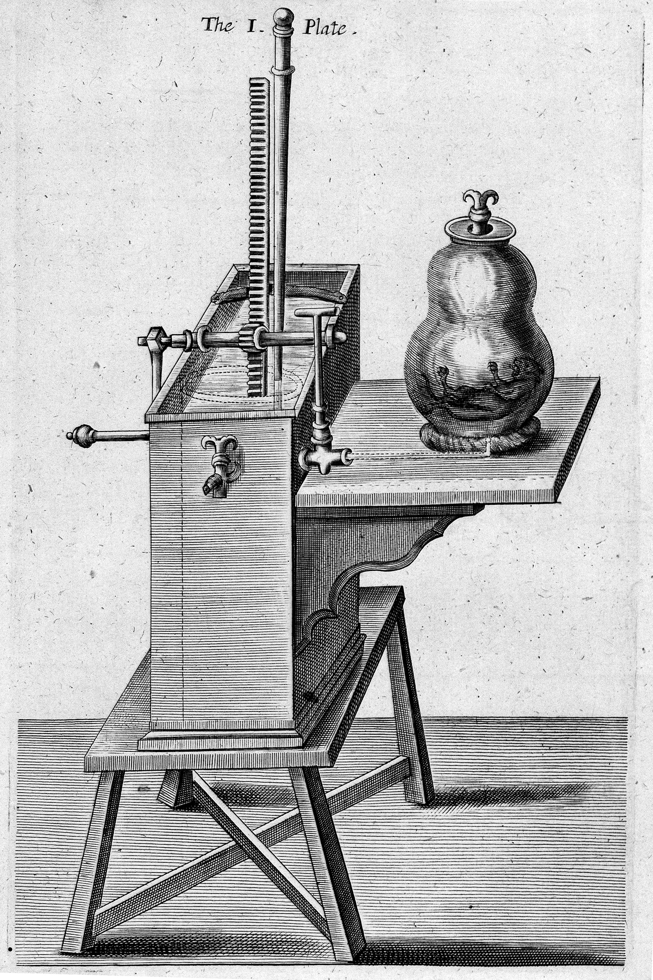 Apparatus for experiments on the "Spring and Weight of Air"; Boyles second air-pump Rare Books Keywords: Robert Boyle; Physics; Apparatus